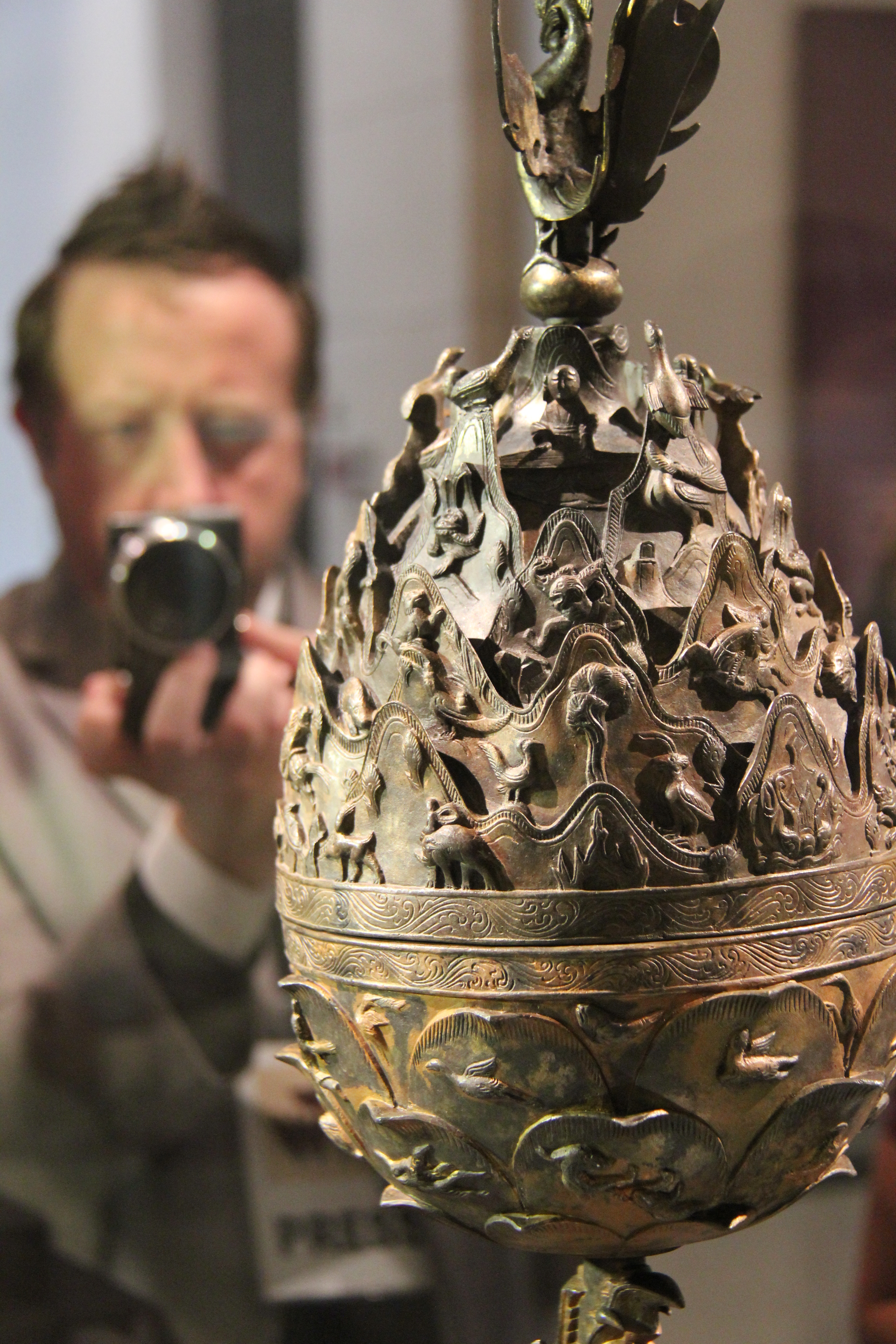 The Korea Culture and Information Service (KOCIS) admitted a new team of contributors for the Worldwide Korea Blog (WKB) with a welcoming ceremony on March 23. The blogging team, consisting of foreign bloggers residing in Korea or overseas, contributes pieces to the official blog of KOCIS, The Korea Blog , and introduces Korean culture to the world through social media services. The bloggers living in Korea were invited to the welcoming ceremony for a report on the activities of the WKB team last year and received a certificate of appointment from Woo Jin-young, director of KOCIS. Then, the group visited the National Museum of Korea where they got a look at national treasures such as a thinking Buddhist image and a golden crown from the Silla Dynasty and tried their hands at Korean folk painting.